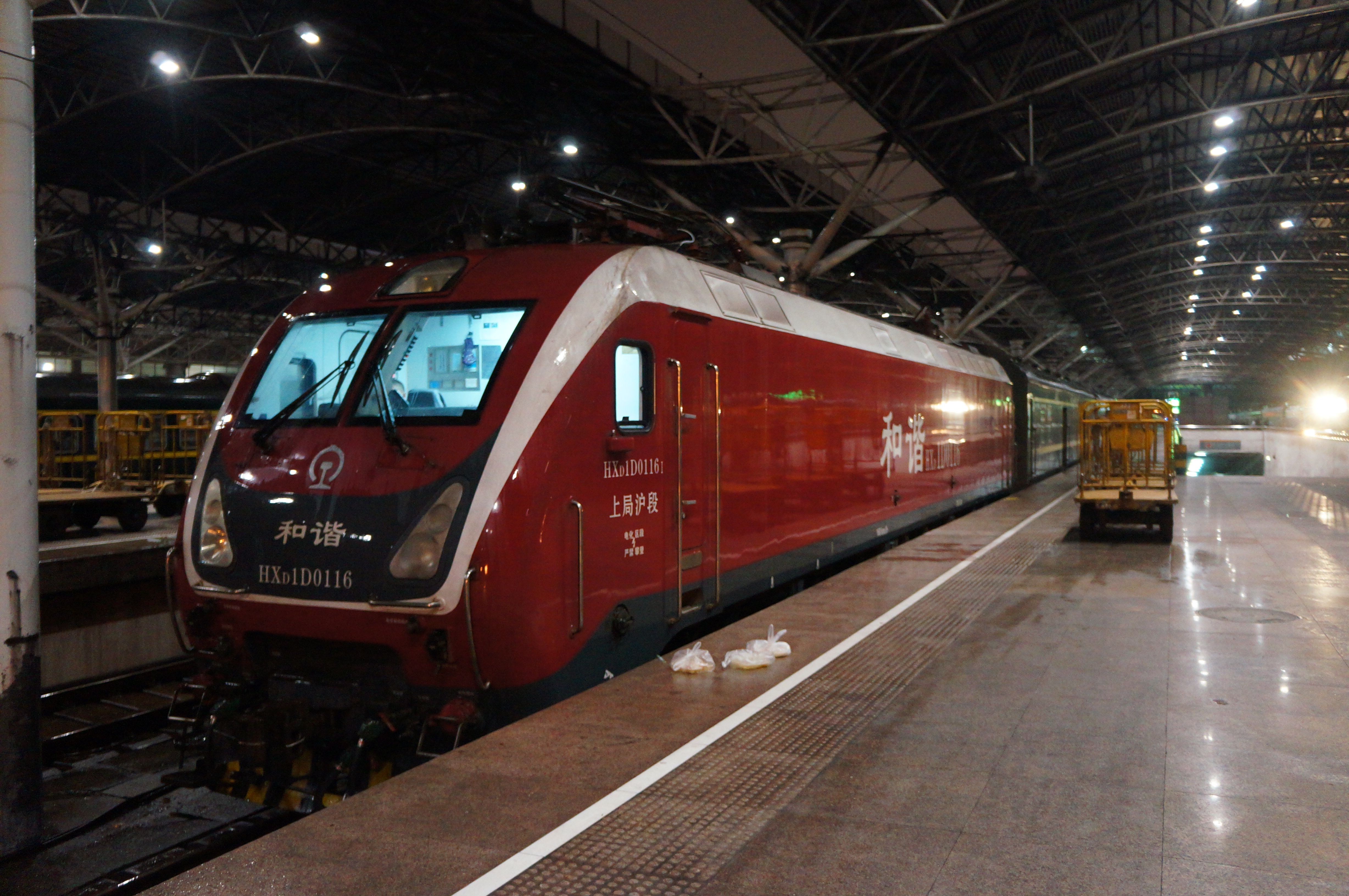 K495 from Shanghainan to Guiyang. A bonus surpriseǃ